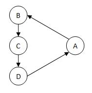 Simple 4 nodes graph (Rank Sink)